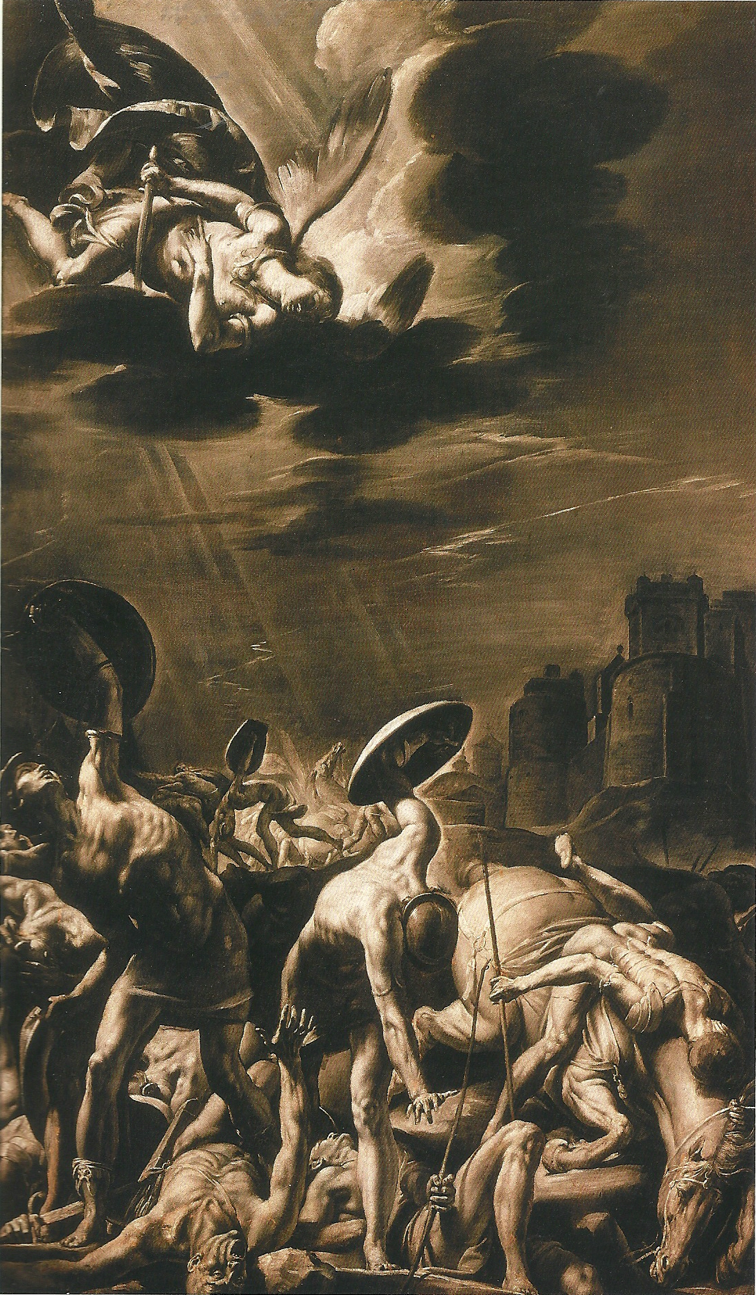 La battaglia di Sennacherib (bozzetto)